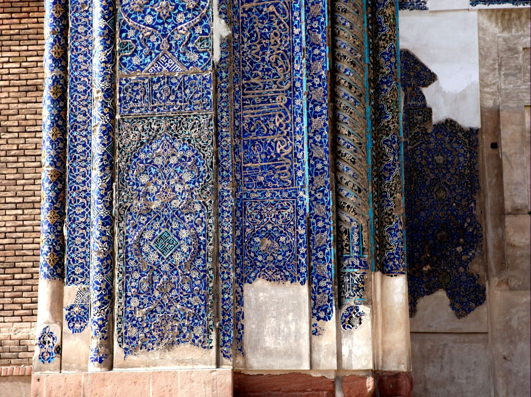 Tabriz, the blue mosque